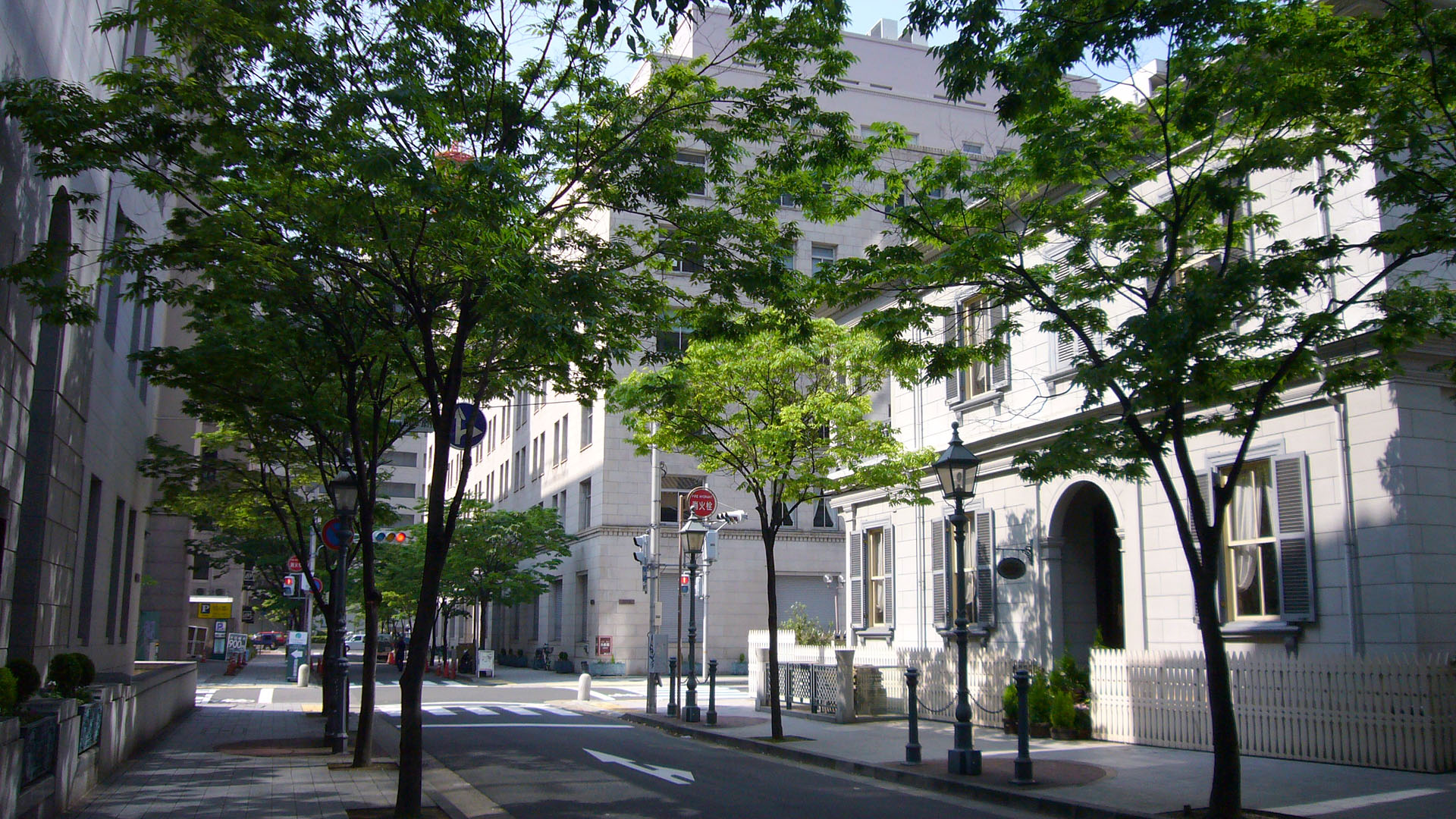 The Old Settlement in Kobe, Japan